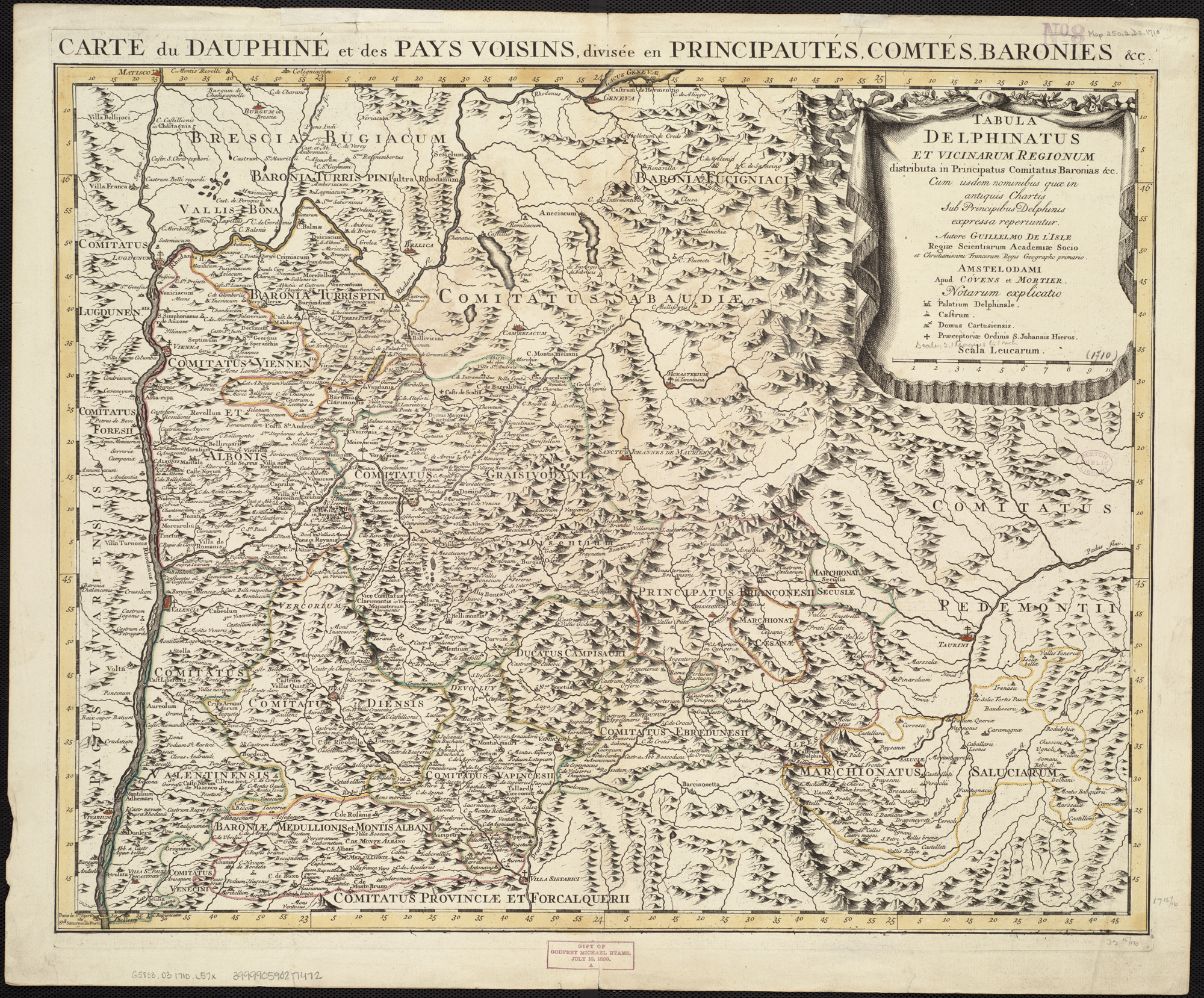 Zoom into this map at . Author: L'Isle, Guillaume de Publisher: Cóvens et Mortier Date: 1710 Location: Dauphiné (France), Savoy (France and Italy) Dimension: 48x59cm Scale: ca. 1:500,000 Call Number: G5833.D3 1710 .L57x